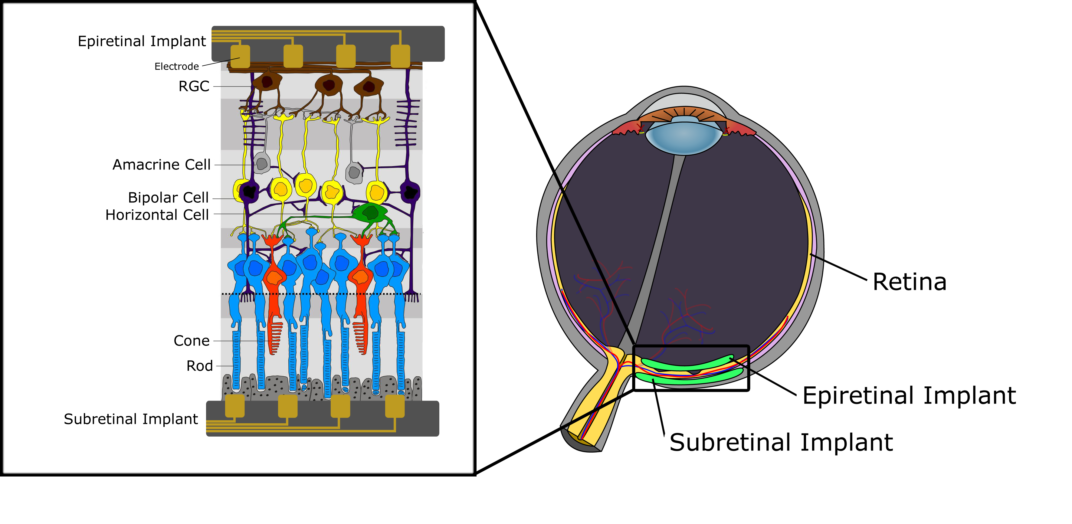 Retinal implants, subretinal and epiretinal, schematics